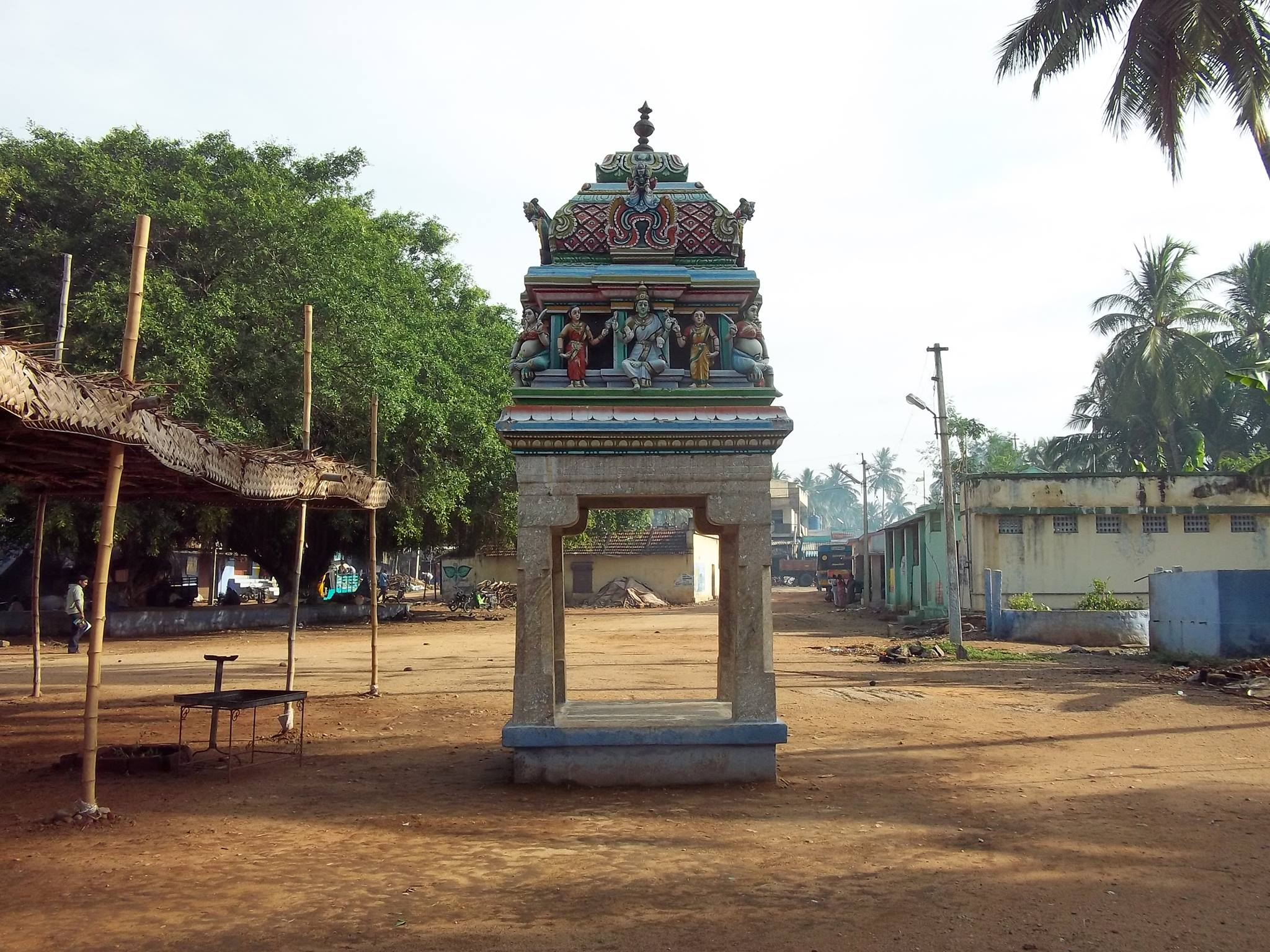 Erayamangalam Temple Front Side